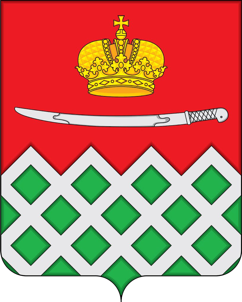 Coat of Arms of Novonikolaevskoe rural settlement (Krasnodar Krai)